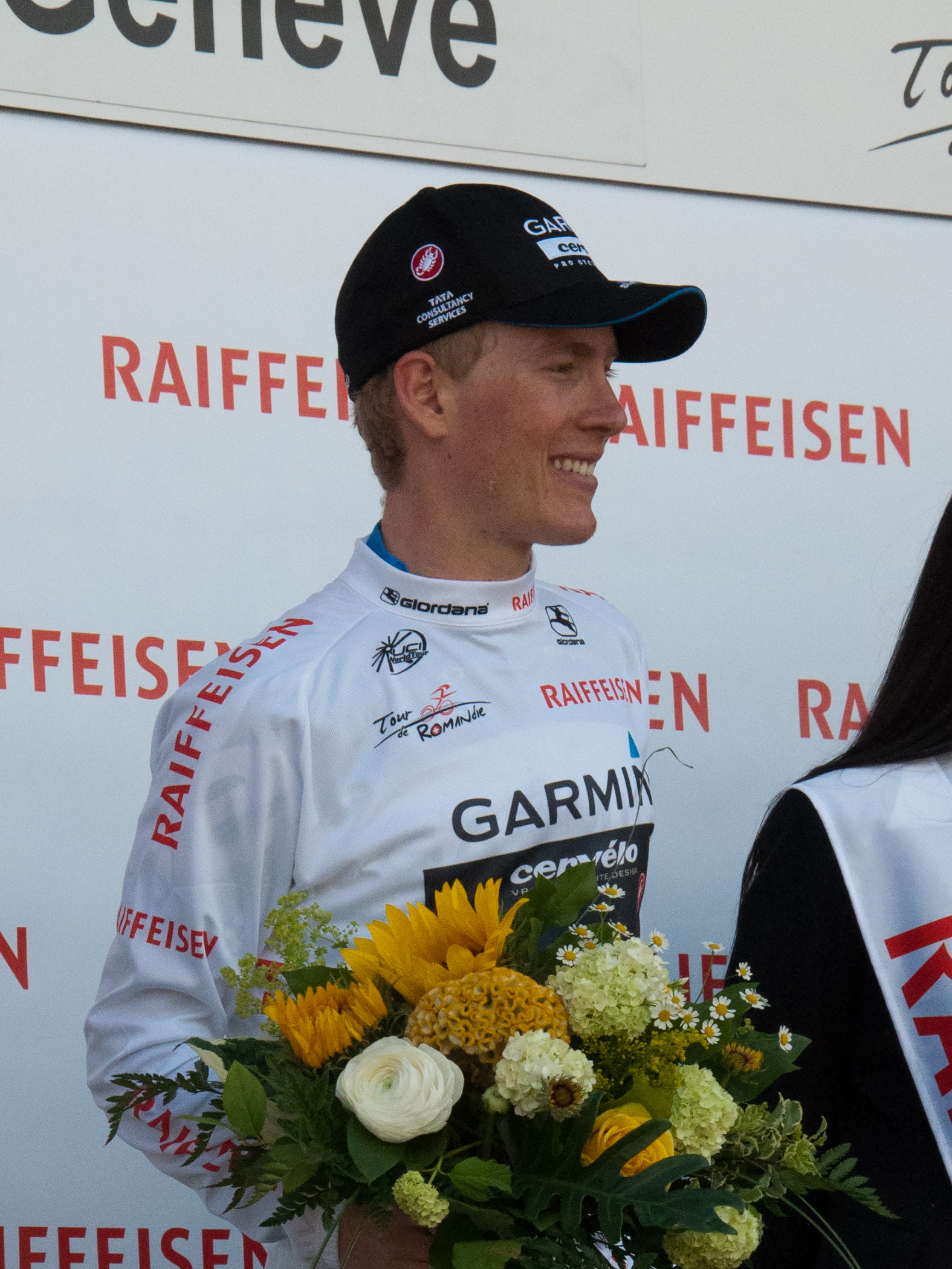 2011 Tour de Romandie, Winner of the Youth Classification Andrew Talansky wearing the final White jersey.